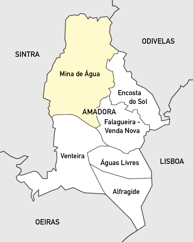 Map of the Freguesia Mina de Água of Amadora